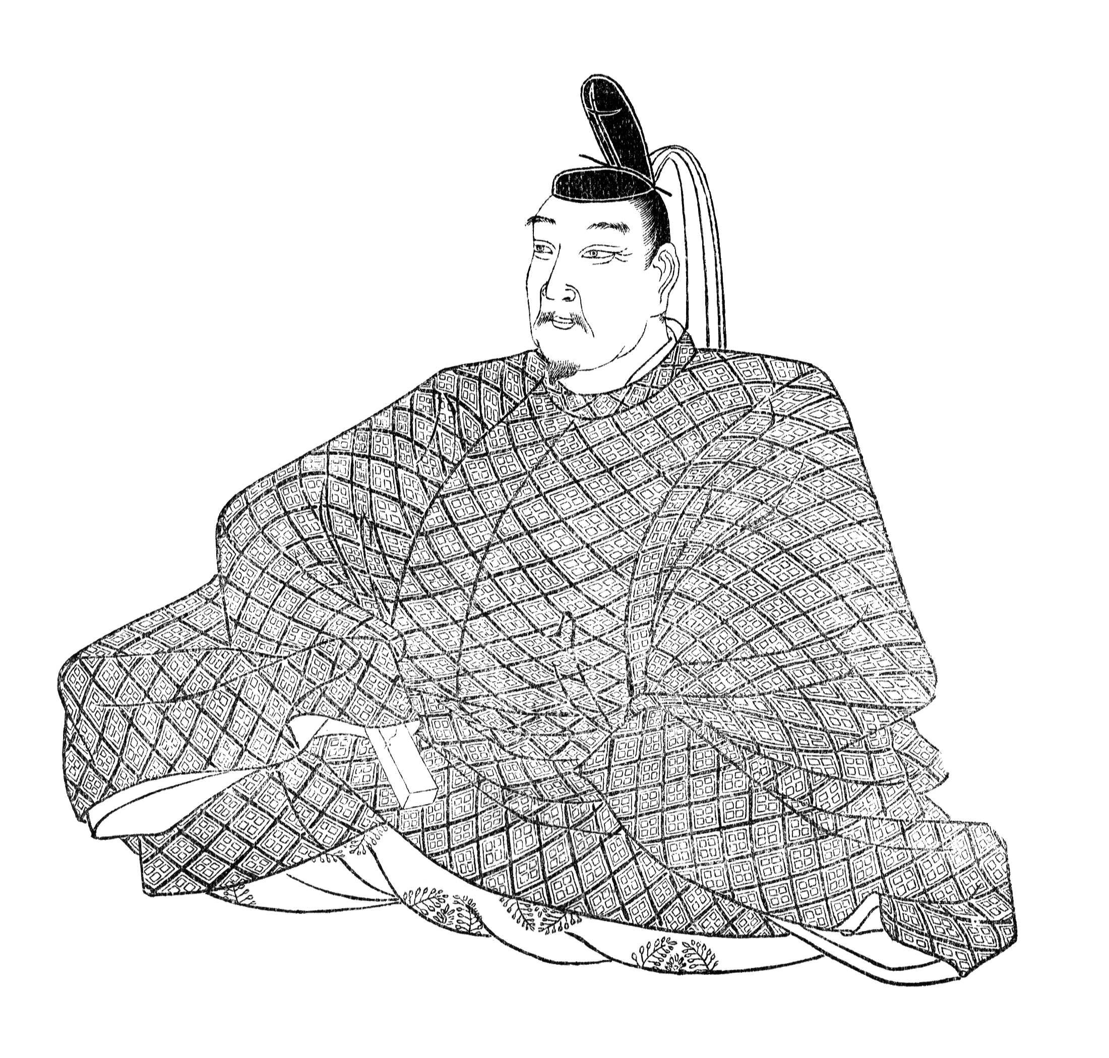 Portrait of Reizei_Tamesuke